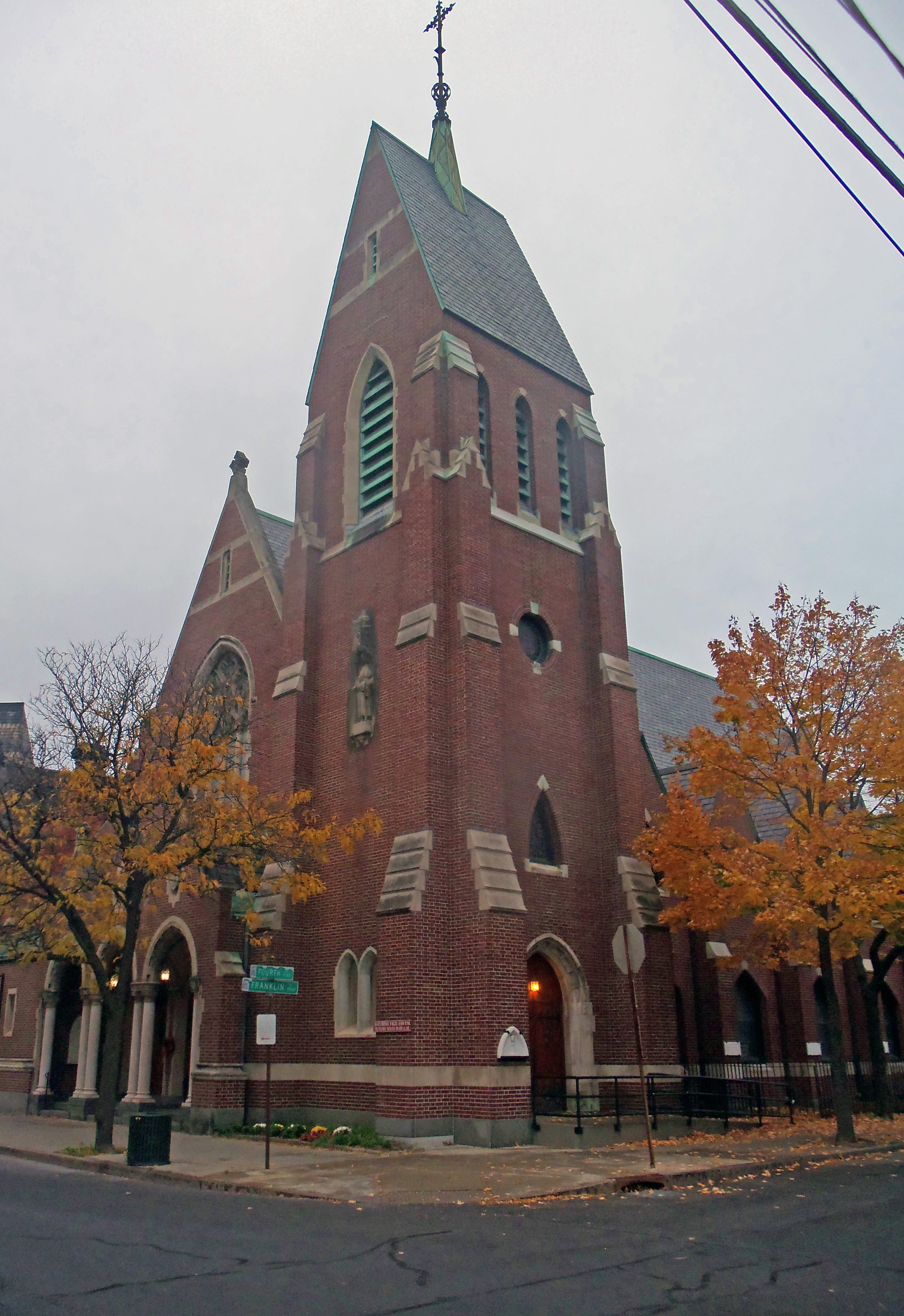 St. John's/St Ann's Roman Catholic Church, a contributing property to the South End–Groesbeckville Historic District, Albany, NY, USA